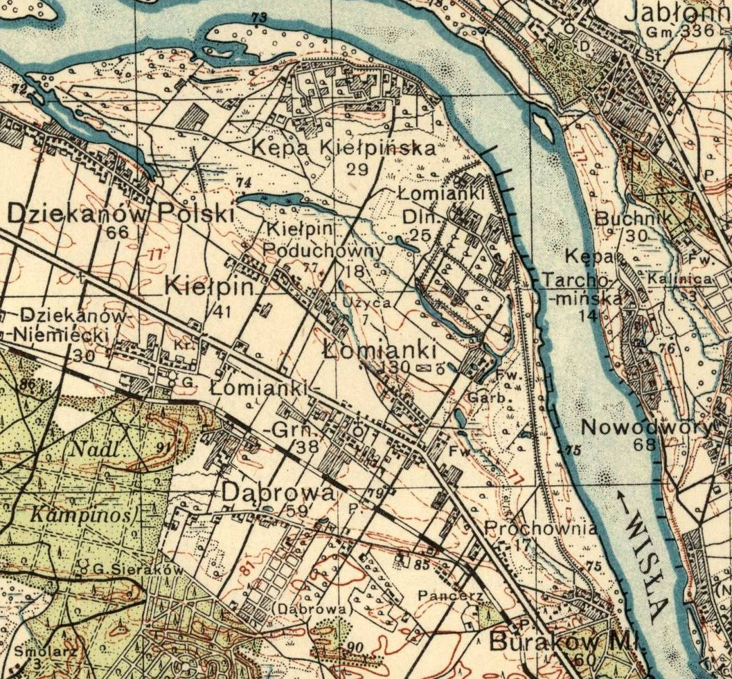 Map of Łomianki region, Poland (all rights reserved in 1933), part of map Warszawa Północ